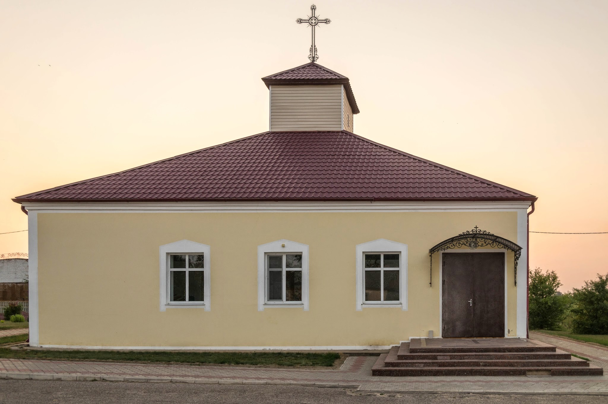 Roman Catholic Saint Joseph church in Paryž village, Pastavy District, Belarus. The church was rebuilt from a shop.